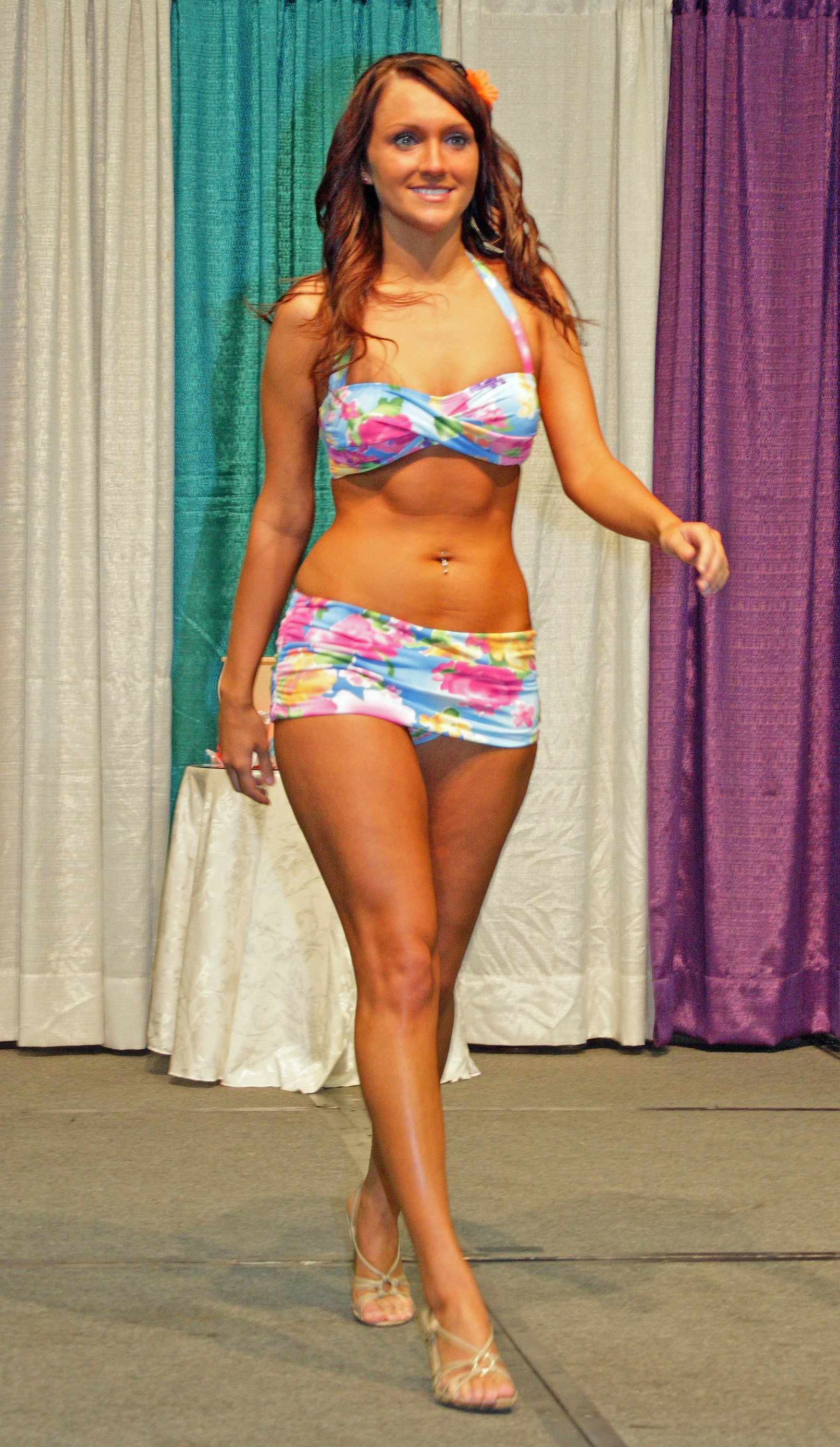 Run to the Sun is an Anchorage business for woman's clothing and also tanning. They had a fashion show at the Woman's Show in Anchorage, Alaska in April 2010. The show is pretty good but the lighting at the Sullivan Arena is absolutely horrible - like something out of a bomb shelter. Hopefully these photos aren't too bad. I met several of the models and shot with them at separate photo shoots - but it will take some time to post those photos.